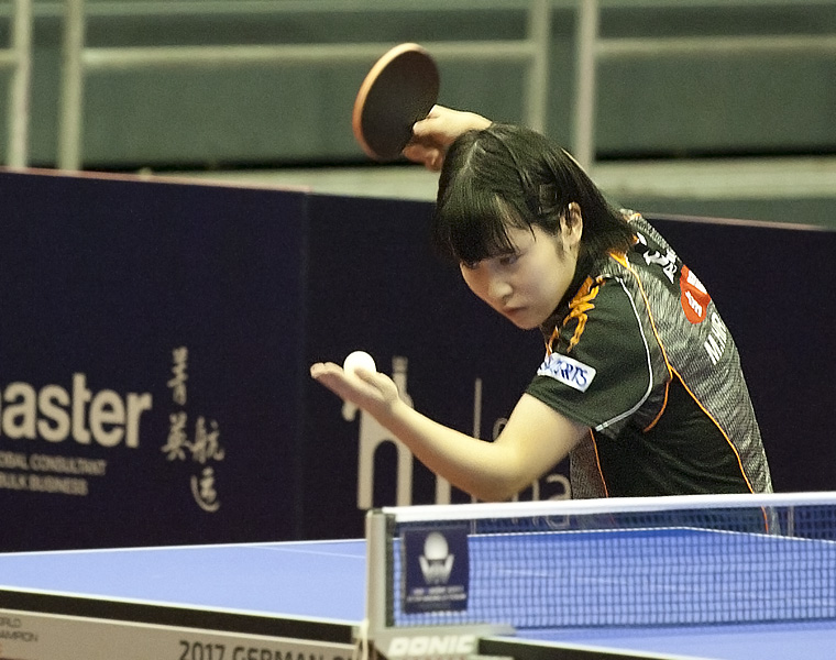 ITTF World Tour 2017 German Open, Magdeburg, Germany, 7 Nov 2017 - 12 Nov 2017, Miu Hirano